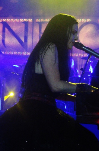 Evanescence performing during their 2011 tour.